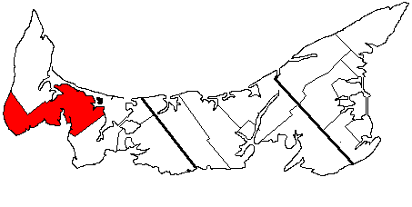 Adapted from existing Prince Edward Island election results maps to depict a specific electoral district.